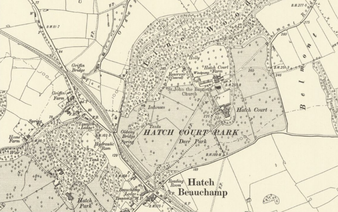 1886 Ordnance Survey map (6 inches to one mile) of Hatch Beauchamp, Somerset, England.